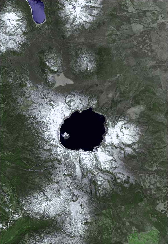 The raw satellite imagery shown in these images was obtain from NASA and/or the US Geological Survey. Post-processing and production by